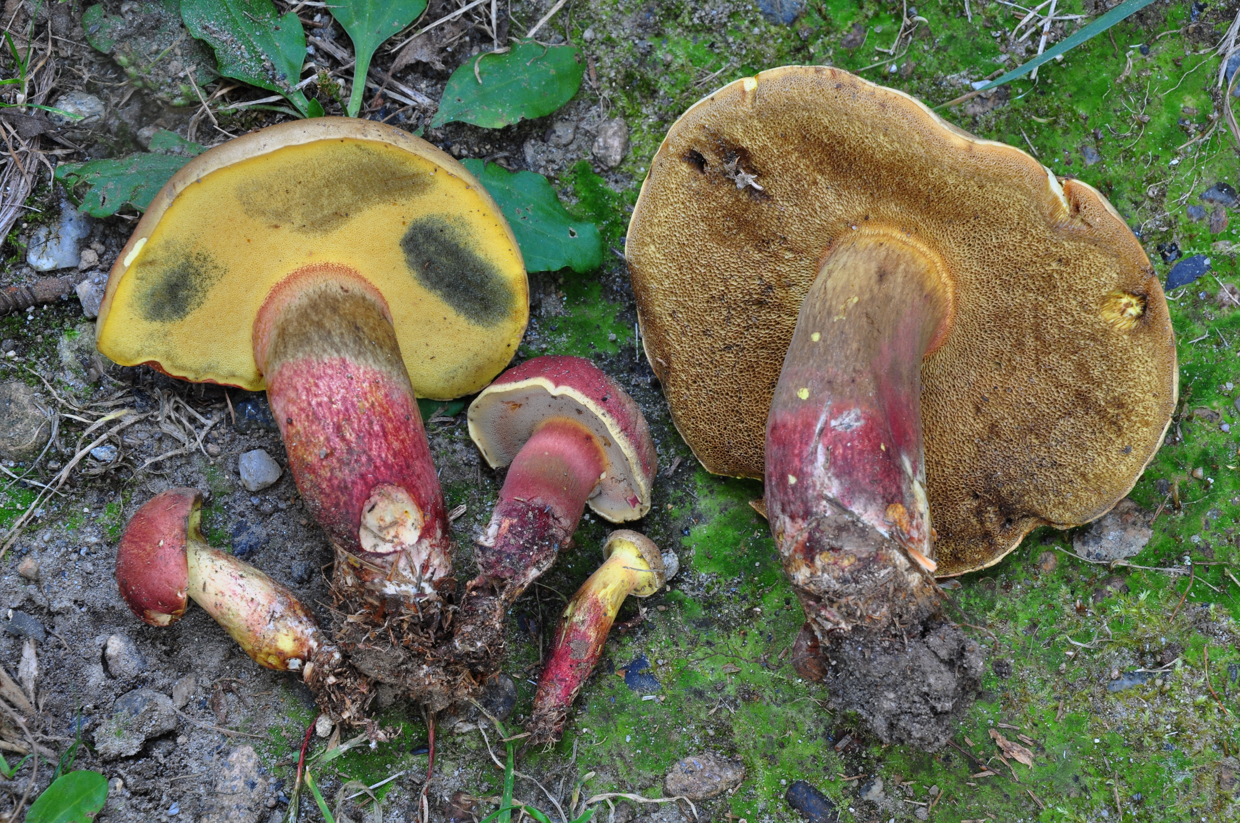 Baorangia bicolor group Image location: Bike Path South Kingstown, RI …for this post should be changed to August 26 (pic metadata). Recognized by sight For more information about this, see the observation page at Mushroom Observer.